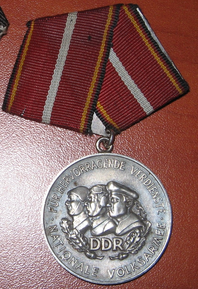 NVA Merit medal in silver